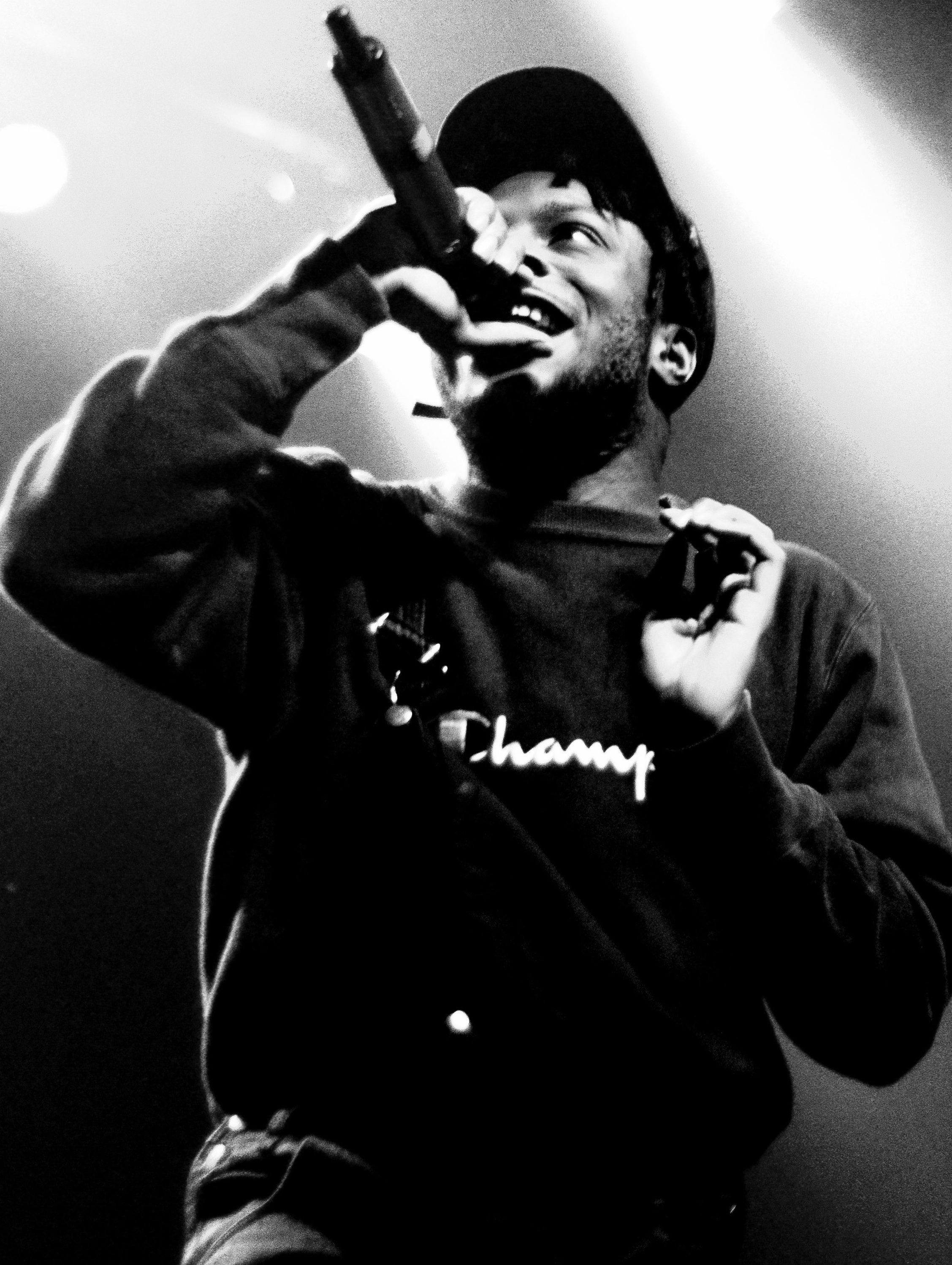 Isaiah Rashad performing in January 2017